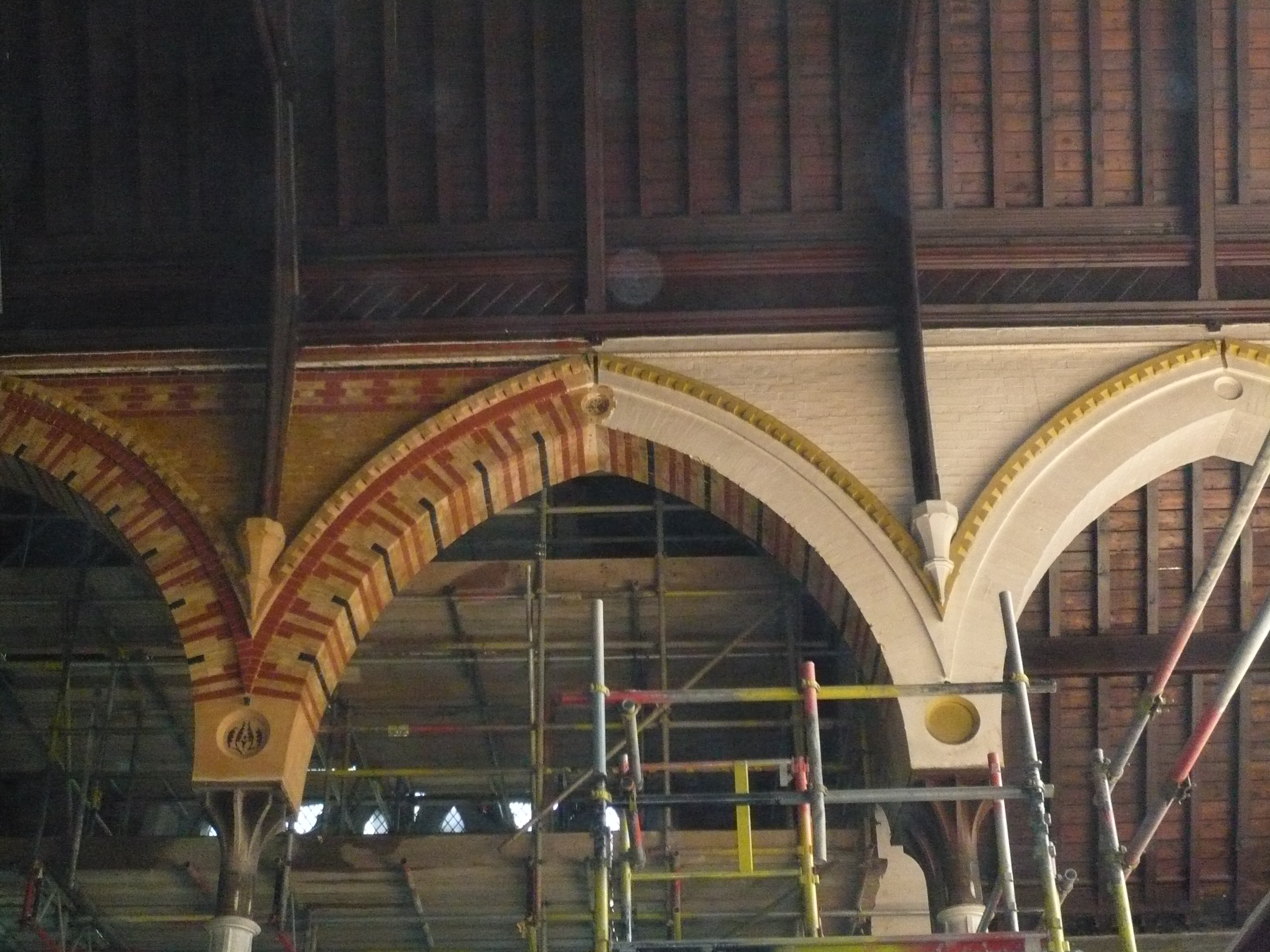 In the Nave: removal of the paint in progress at high level, revealing the murals within the roundels, and the coloured brickwork